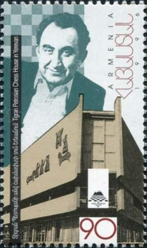 Stamp of Armenia